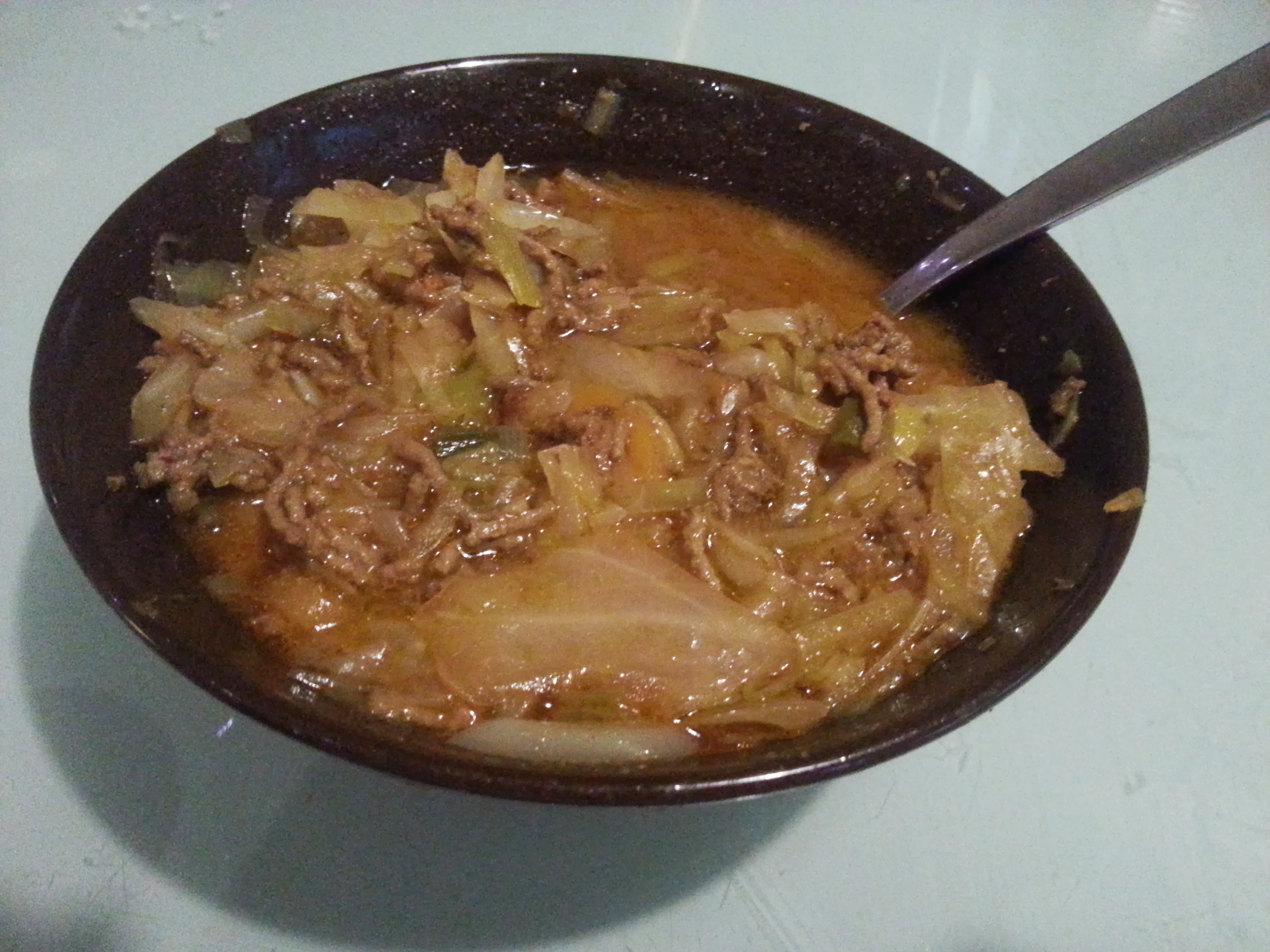 A bowl of Nikkaluokta soup